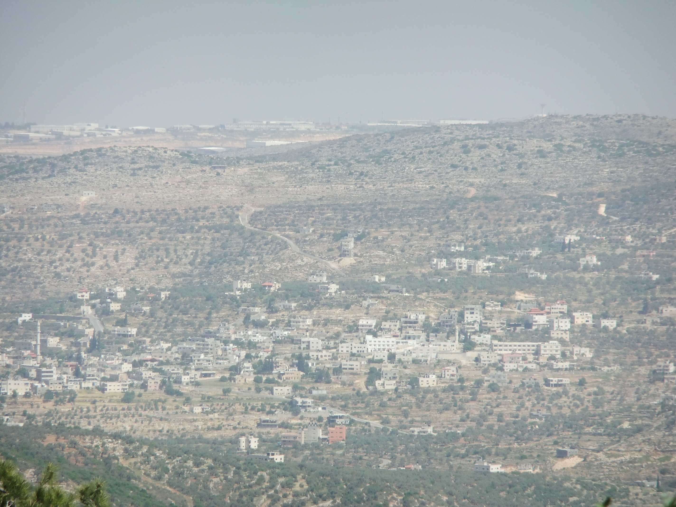 Qarawat Bani Zeid from Um Tsafa forest